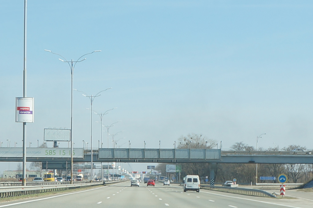 M03 motorway between Kyiv and Boryspil